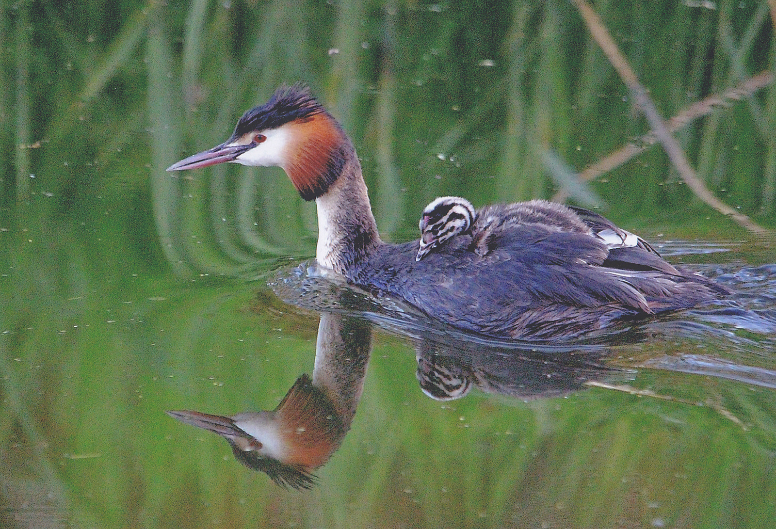 Grebe with a sleeping baby on her back